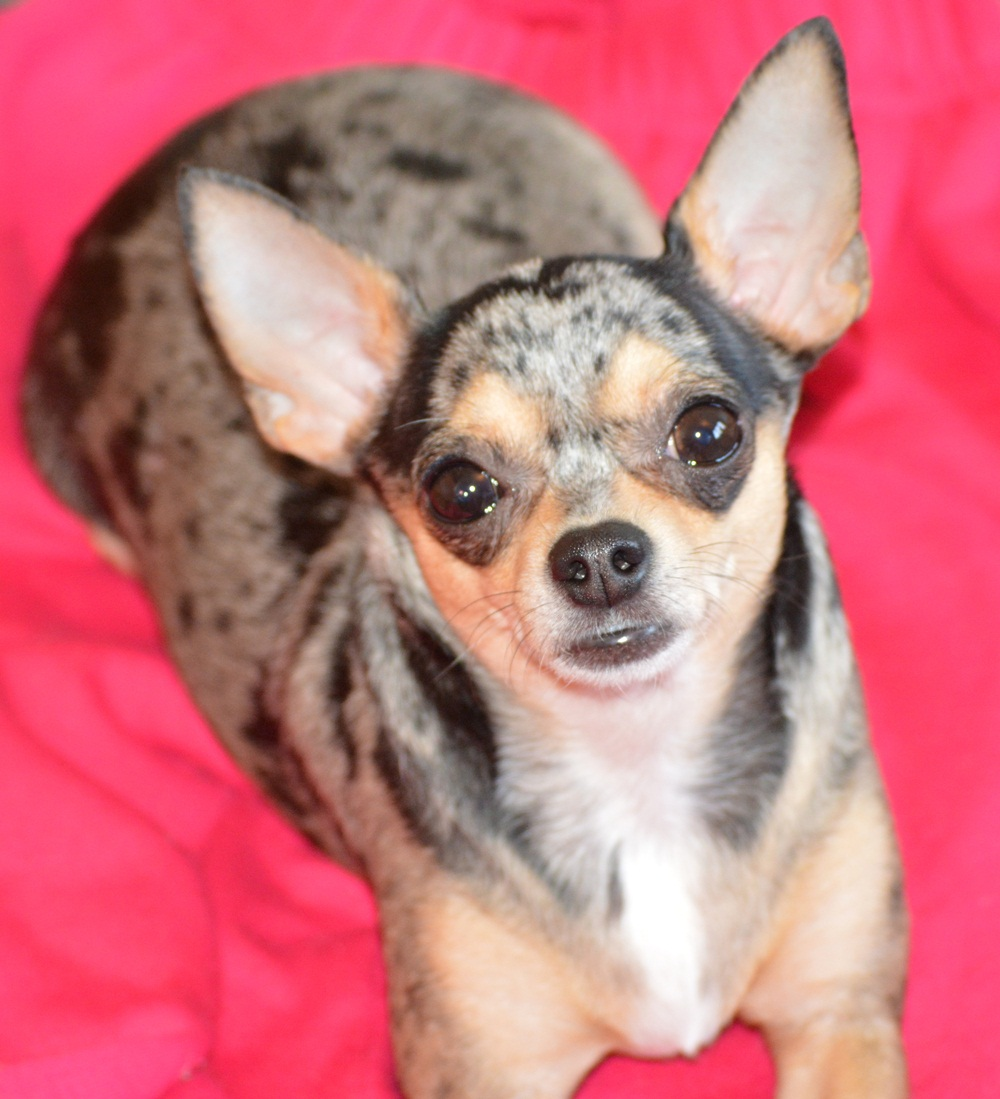 Chihuahua Blue Merle